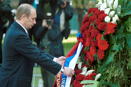 THE ALEXANDROVSKY GARDEN, MOSCOW. President Putin laying a wreath at the Tomb of the Unknown Soldier.